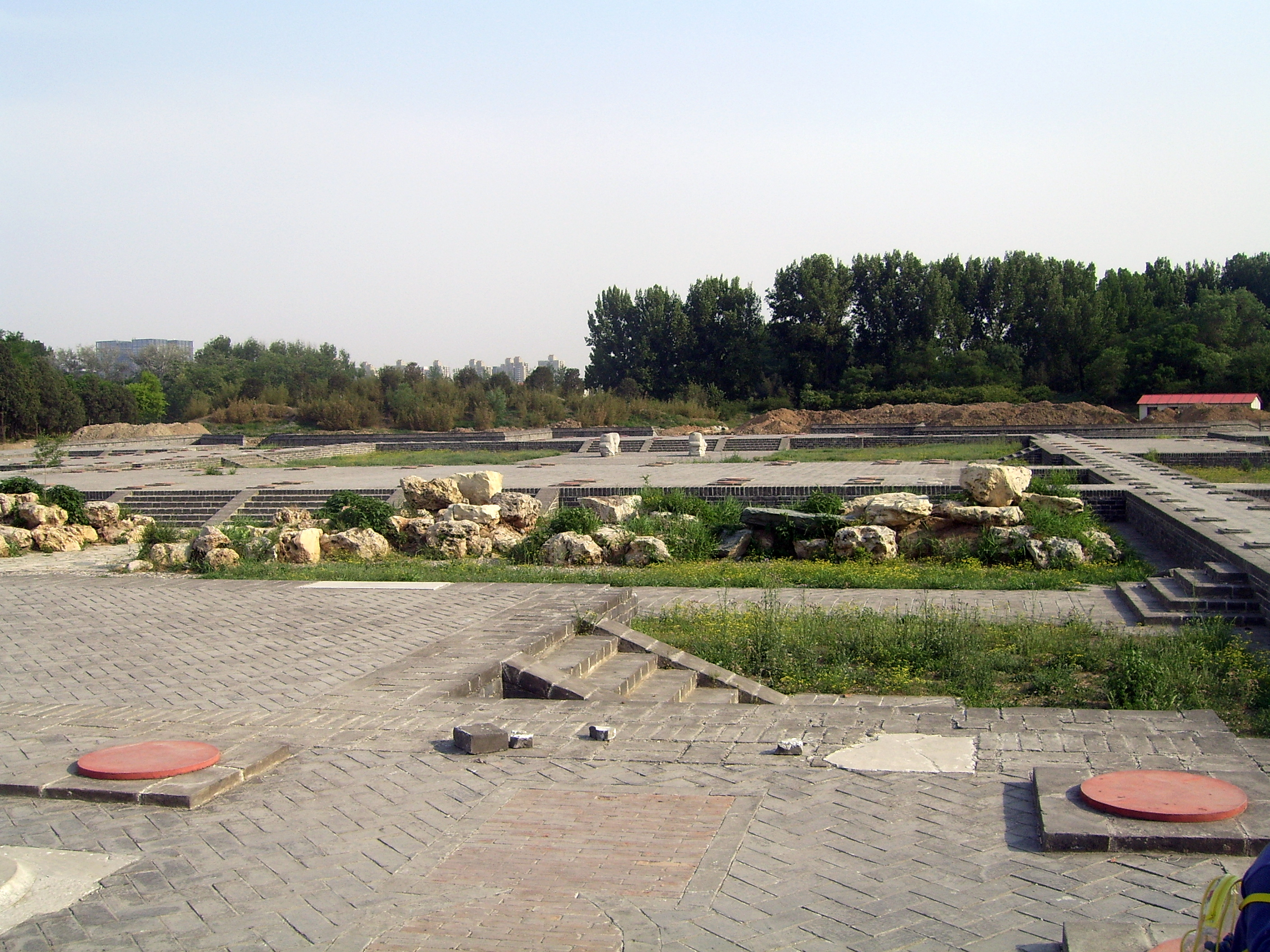 Ruins of Xiyang Lou (Western mansions) structures and gardens. On the grounds of the Yunamingyuan (Old Summer Palace) — in Beijing.